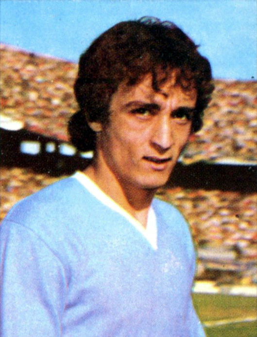 Italian footballer Vincenzo D'Amico with S.S. Lazio in the 1975–76 season.